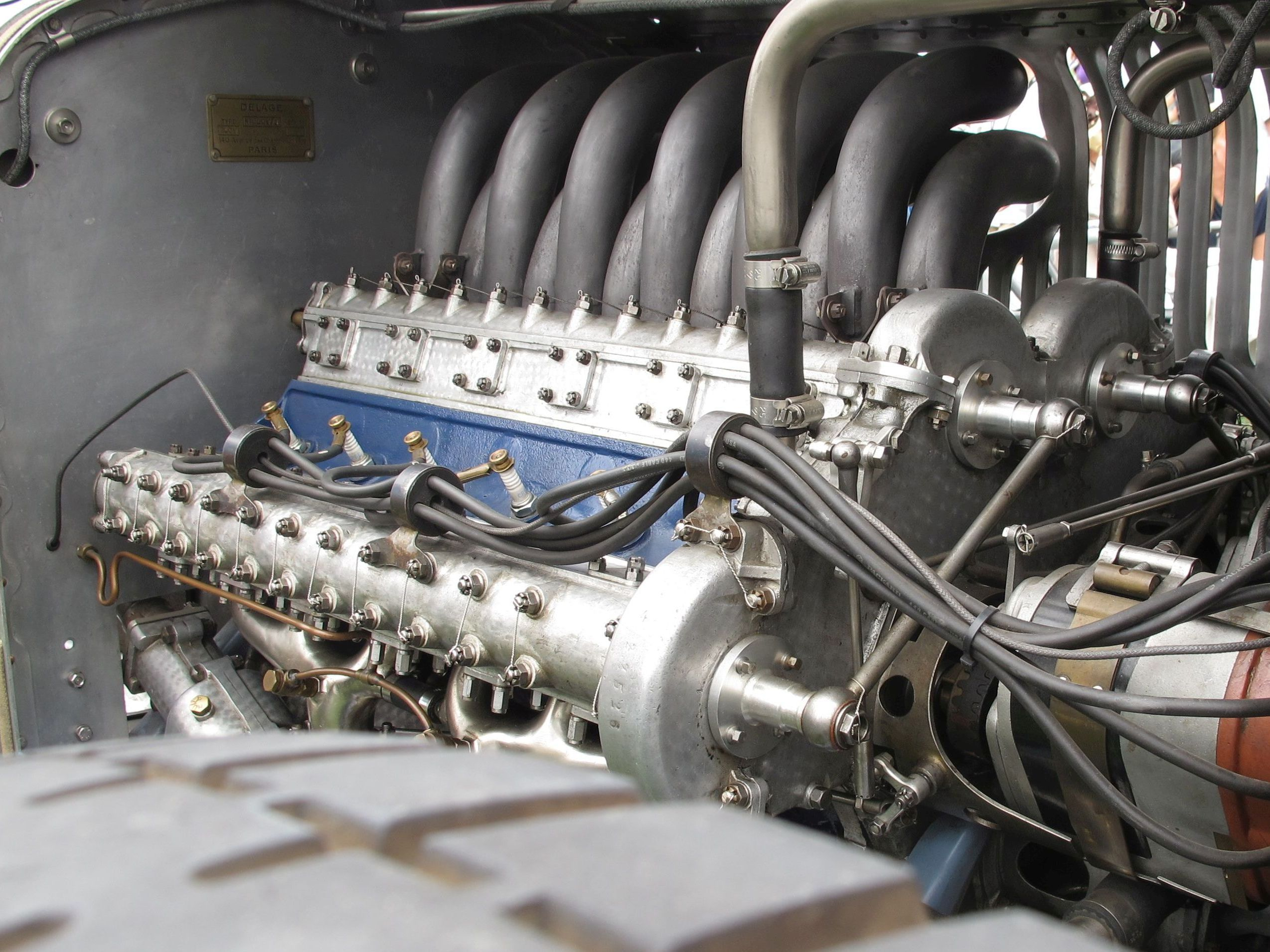 A cropped picture of a V-12 racing engine in a 1924 Delage 2 LCV Grand Prix car displayed at the 2012 Pebble Beach Concours d' Elegance